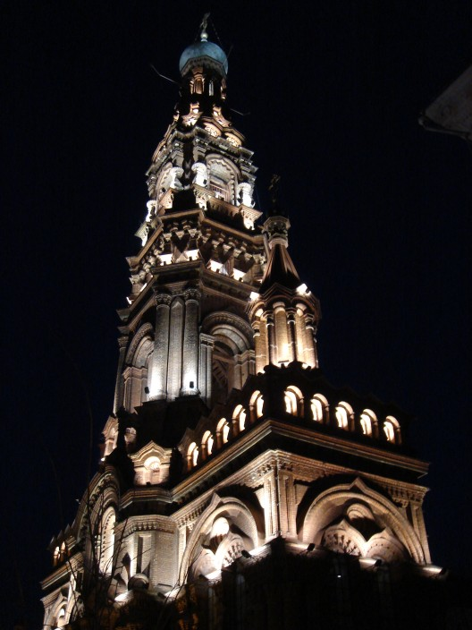 Belltower of Epiphany Church, Kazan, Russia